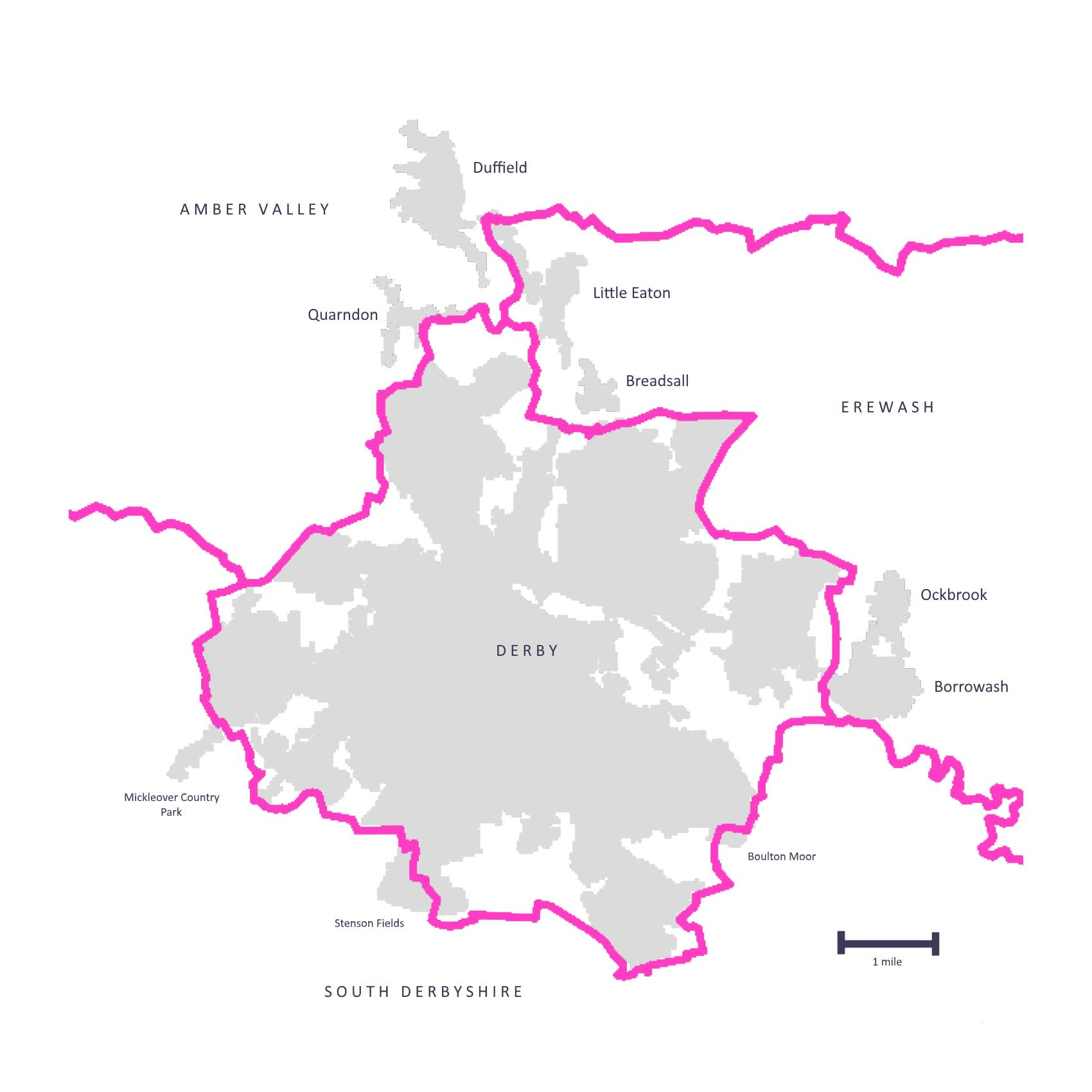 Map of Derby and surrounding built-up areas.